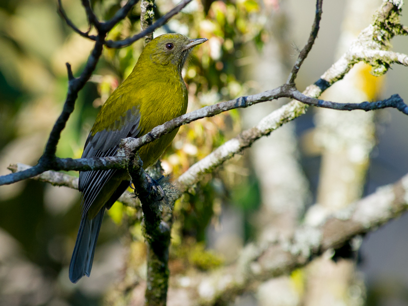 Tijuca condita Gray-winged Cotinga